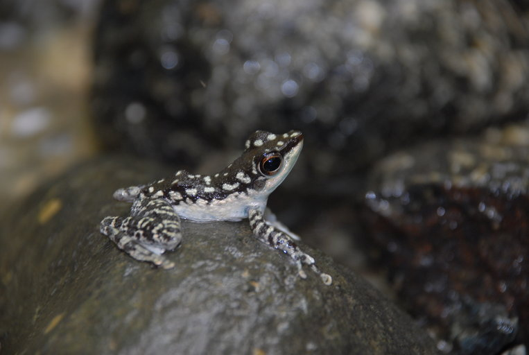 Staurois natator from Mindanao, the Philippines